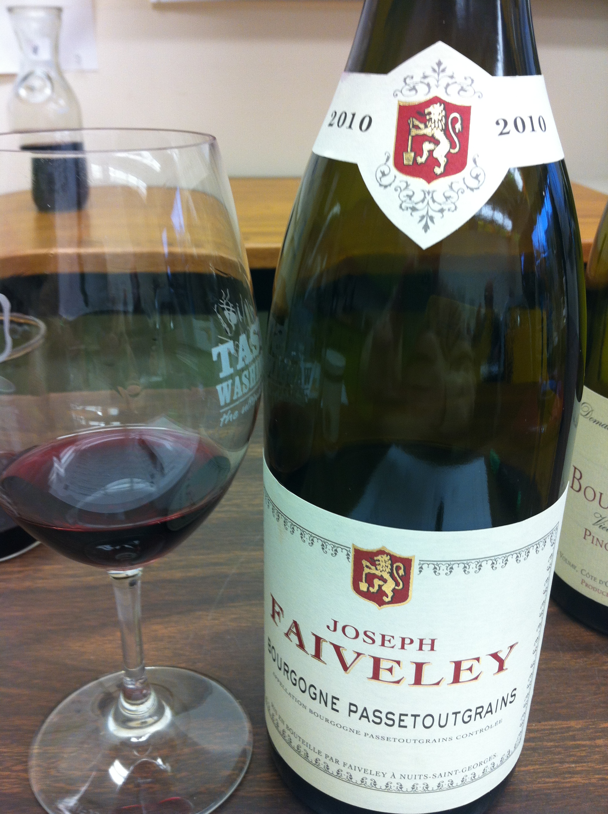 A Burgundy Passetoutgrains wine made from a blend of Gamay and Pinot noir by Domaine Faiveley